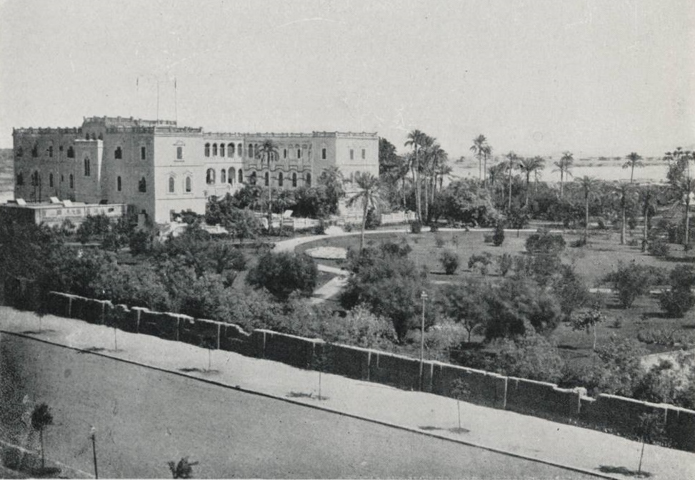 An elevated view of the palace at Khartoum, and the large courtyard gardens enclosed in its walls.